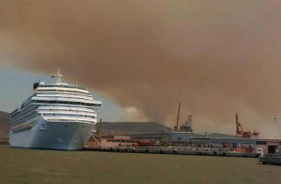 İzmir - Manisa Road (Mount Sipylus - en: Mount Yamanlar Sabuncubeli Pass) Forest Fire on 15 August 2007 - Turkey